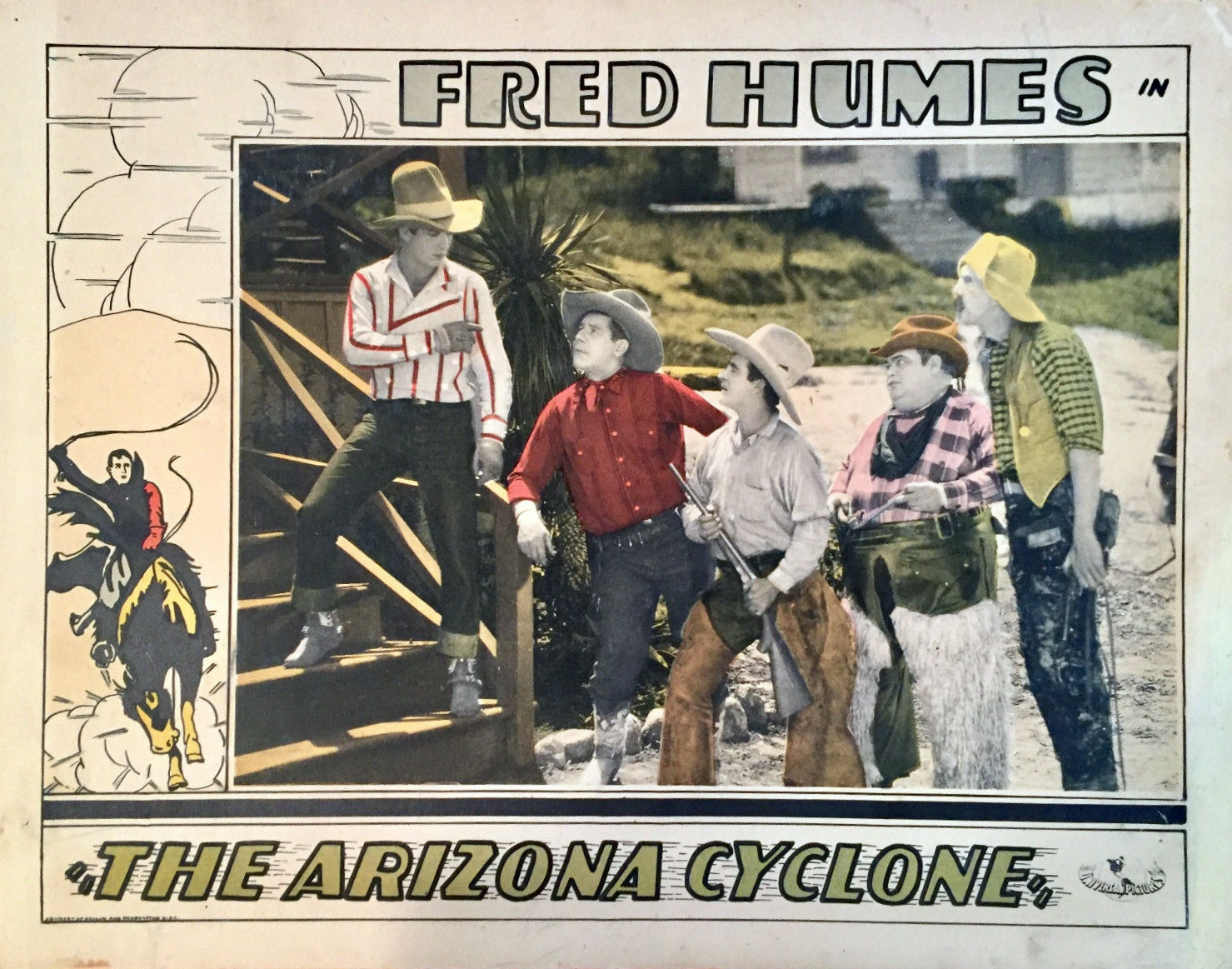 Lobby card for the American western film The Arizona Cyclone (1928) with Fred Humes, Ben Corbett, Gilbert Holmes (1895 – 1936), Scotty Mattraw, and Richard L'Estrange (1889 – 1963).